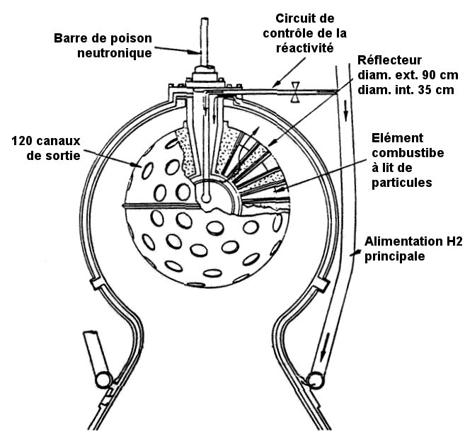 Diagram of a Low Pressure Nuclear Thermal Reactor